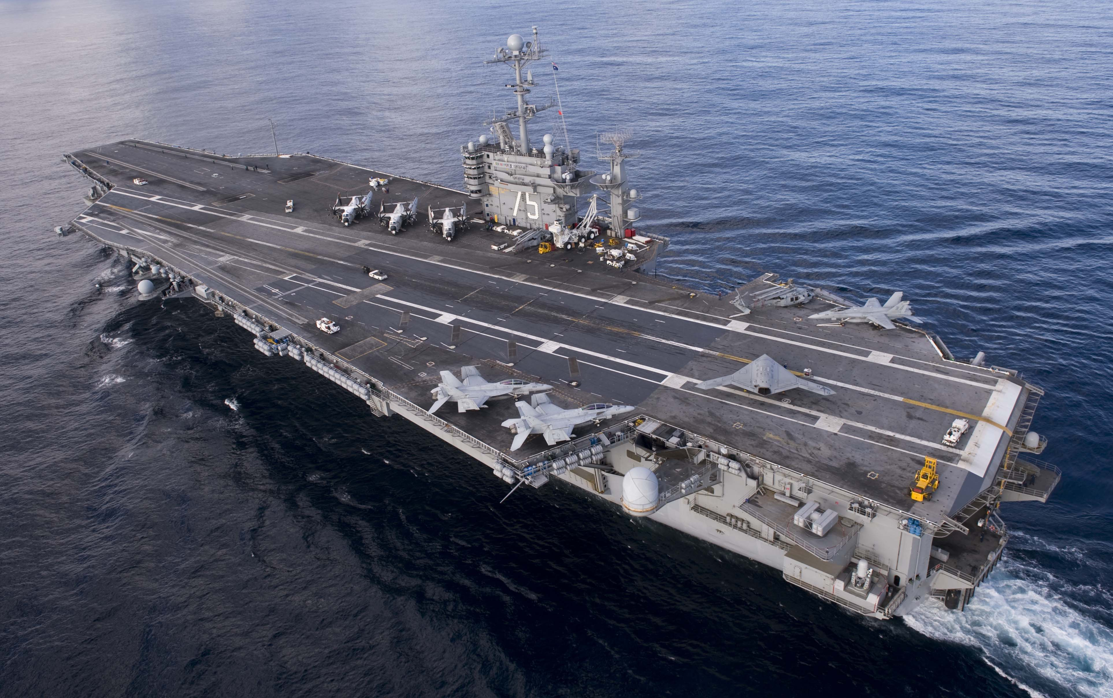 The X-47B Unmanned Combat Air System (UCAS) demonstrator taxies on the flight deck of the aircraft carrier USS Harry S. Truman (CVN 75). Harry S. Truman is the first aircraft carrier to host test operations for an unmanned aircraft. Harry S. Truman is underway supporting carrier qualifications.